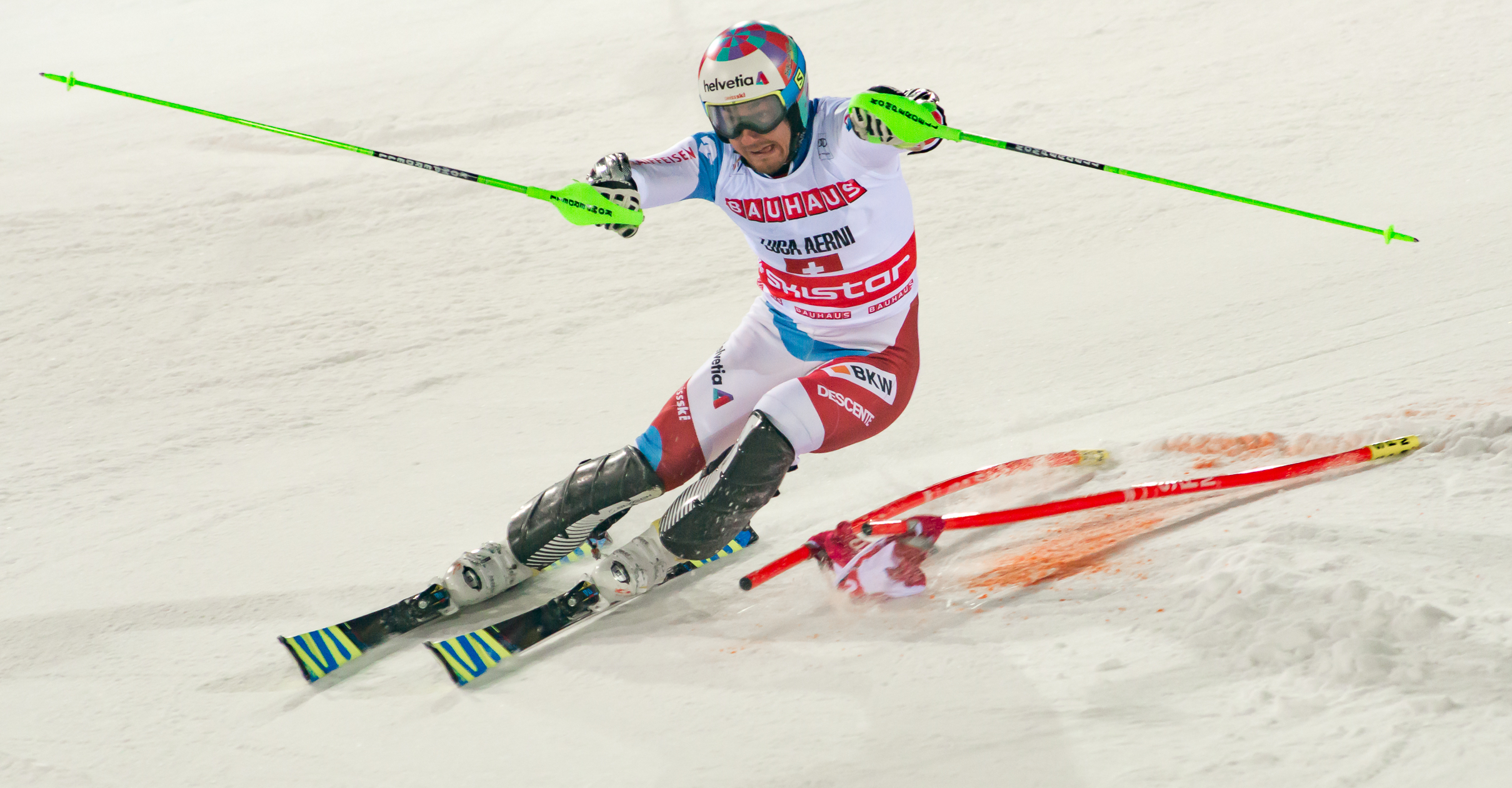 Luca Aerni in action Photo by Roland Osbeck